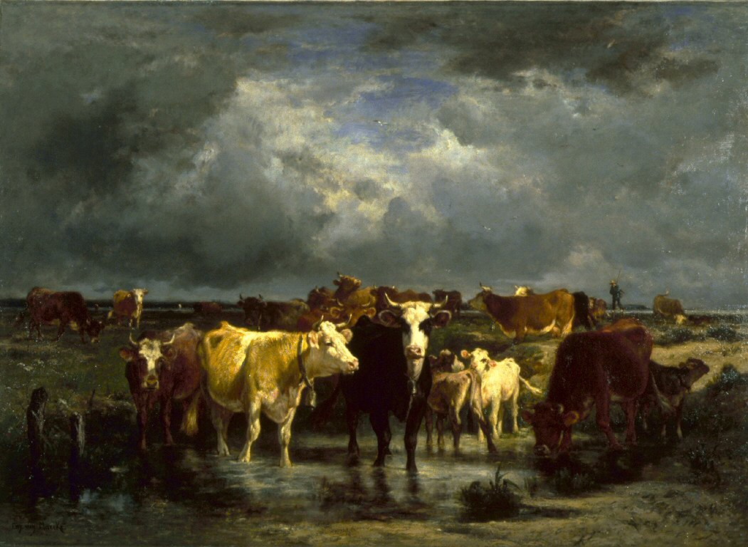 The son of a Flemish artist employed at the Sèvres Porcelain Manufactory, Van Marcke himself decorated porcelains at Sèvres for nine years. An older colleague, Constant Troyon, encouraged him to paint in oils directly from nature. In 1857, Van Marcke began to submit paintings to the Paris salons, and, within a few years he had gained renown as a painter of cattle, a category of art that appealed to city dwellers in Europe and America in the late 19th century. In this scene, Van Marcke depicts cattle grazing in the swamps of the Landes, a region along the southwest coast of France. In the background, a cowherd walking on stilts tends the cattle.